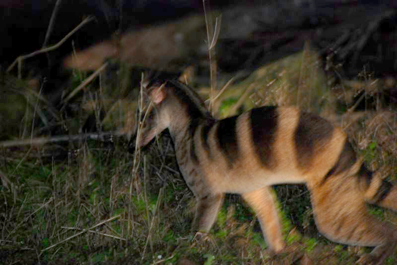 Banded Palm Civet